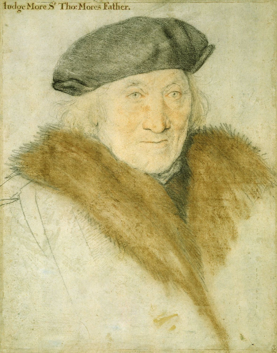 Portrait study of Sir John More. Black and coloured chalks on paper, 35.4 × 27.6 cm, Royal Collection, Windsor. Sir John More (1450/53–1530) was an English judge, the father of Sir Thomas More (1477/88–1535). This drawing is one of seven fine surviving studies drawn by Holbein for his group portrait of Thomas More's family. Here More wears a gown with a fur collar, but in the group portrait, he wears his judge's robes. According to art historian Susan Foister: "The drawing demonstrates Holbein's great facility with the chalk medium and variation of touch, from the quick zigzags of the fur to the softness of hair and eyebrows, and the subtle shading in red and black suggesting the sagging flesh around the deep eye-sockets and cheekbones" (Susan Foister, Holbein in England, London: Tate, 2006, ISBN 1854376454, 35).